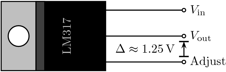 Front view of LM317 bandgap voltage regulator/reference.